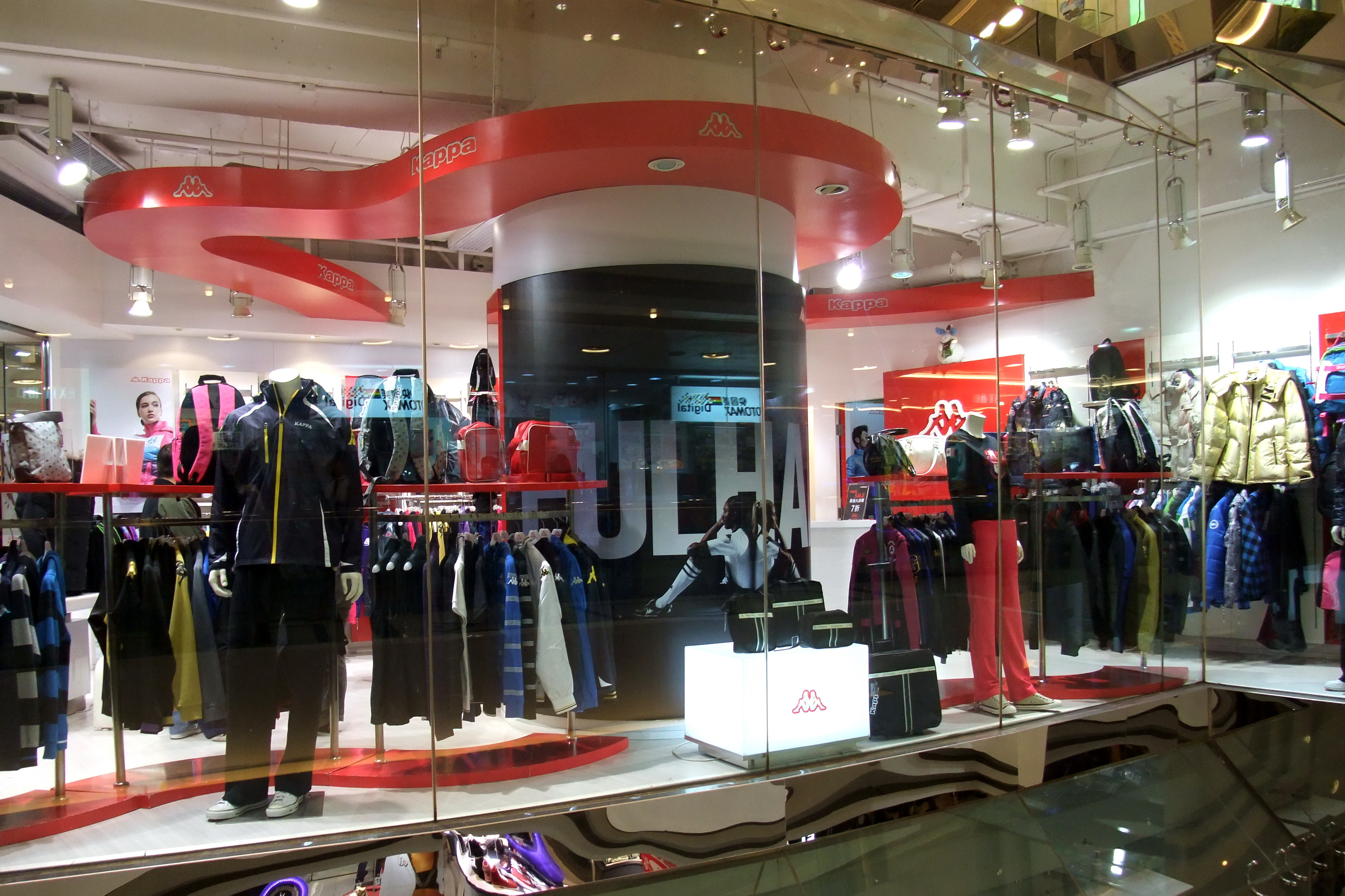 Kappa store at the Grand Century Place in Hong Kong